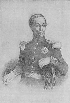 Nicolas Anne Théodule Changarnier (1793-1877)